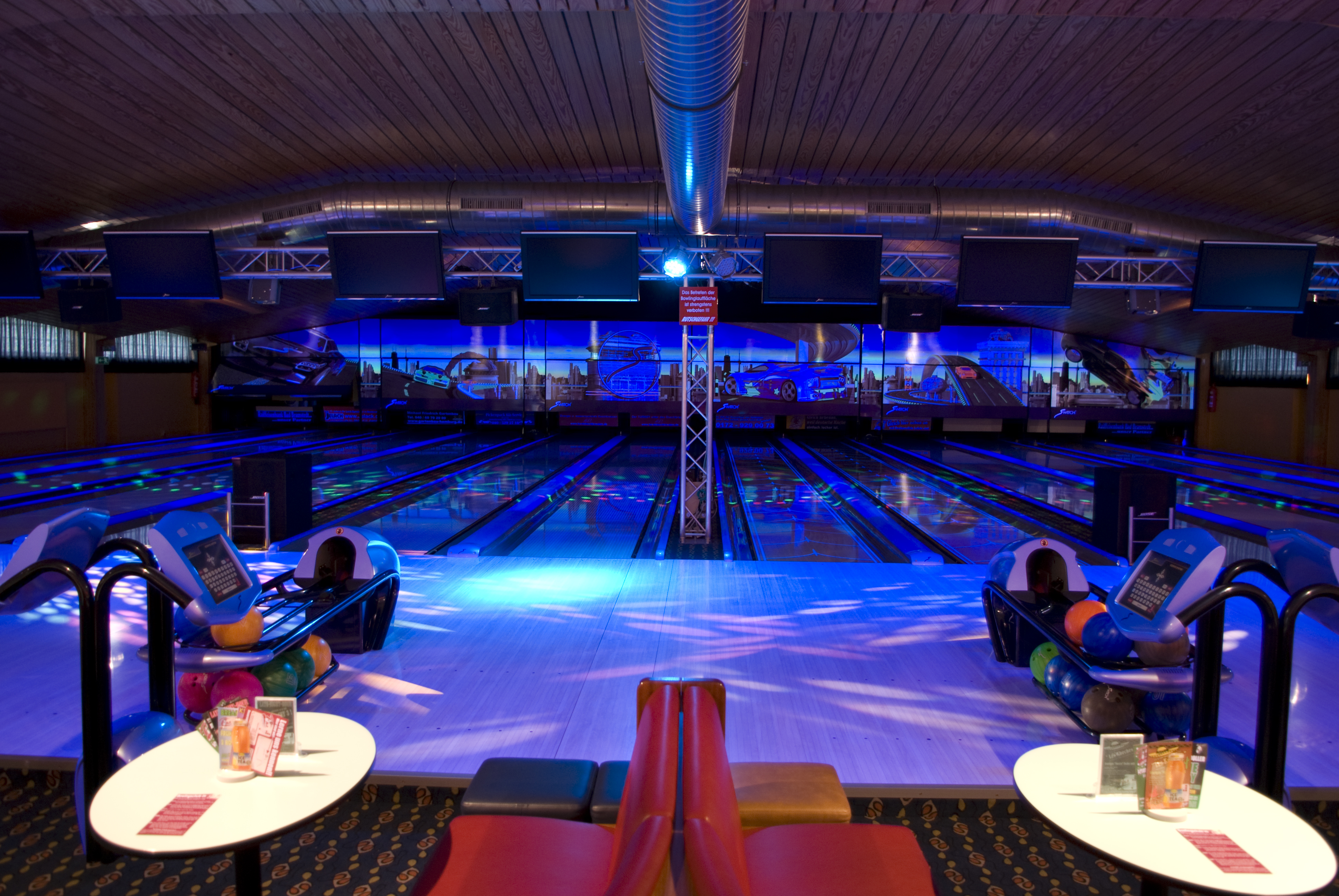 Switch Cosmic Bowling